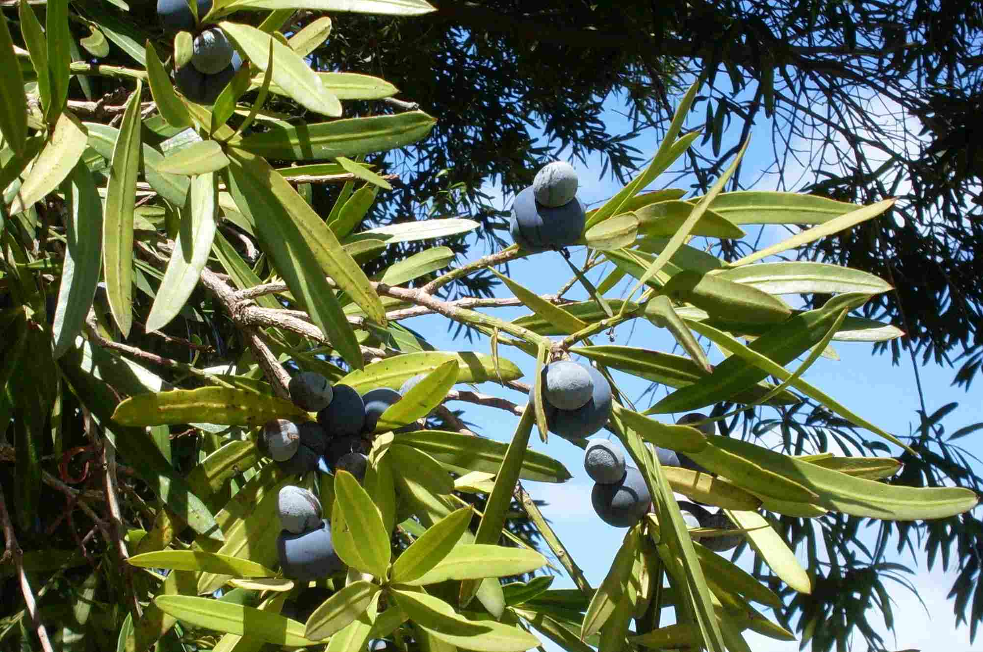 Podocarpus elatus foliage & cones. Chatswood West, NSW, Australia